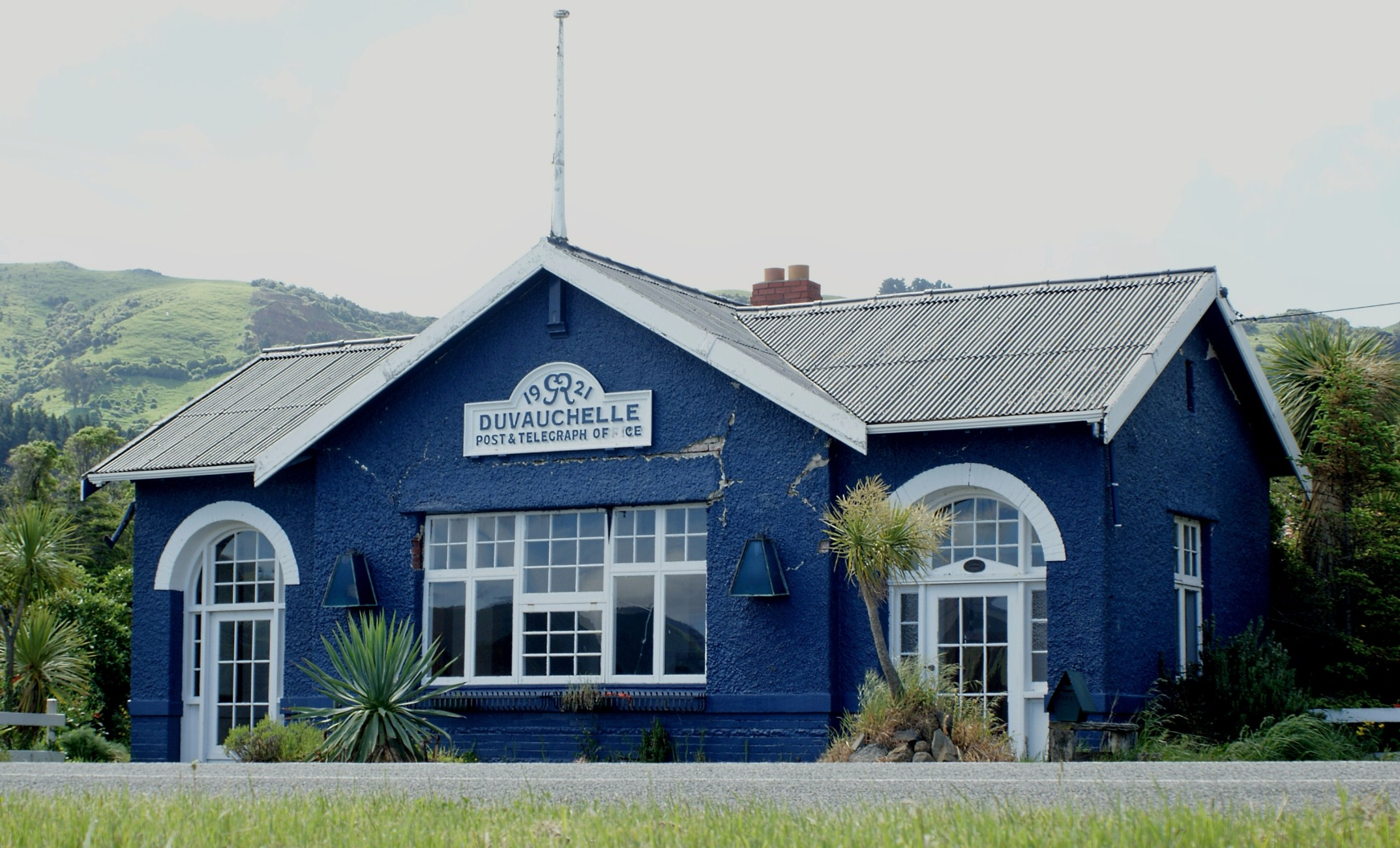 Duvauchelle Post Office (c.1921) The name of this little settlement acknowledges the French heritage of the area. The Post Office building, right on the main road and overlooking the bay, shows evidence of EQ damage...